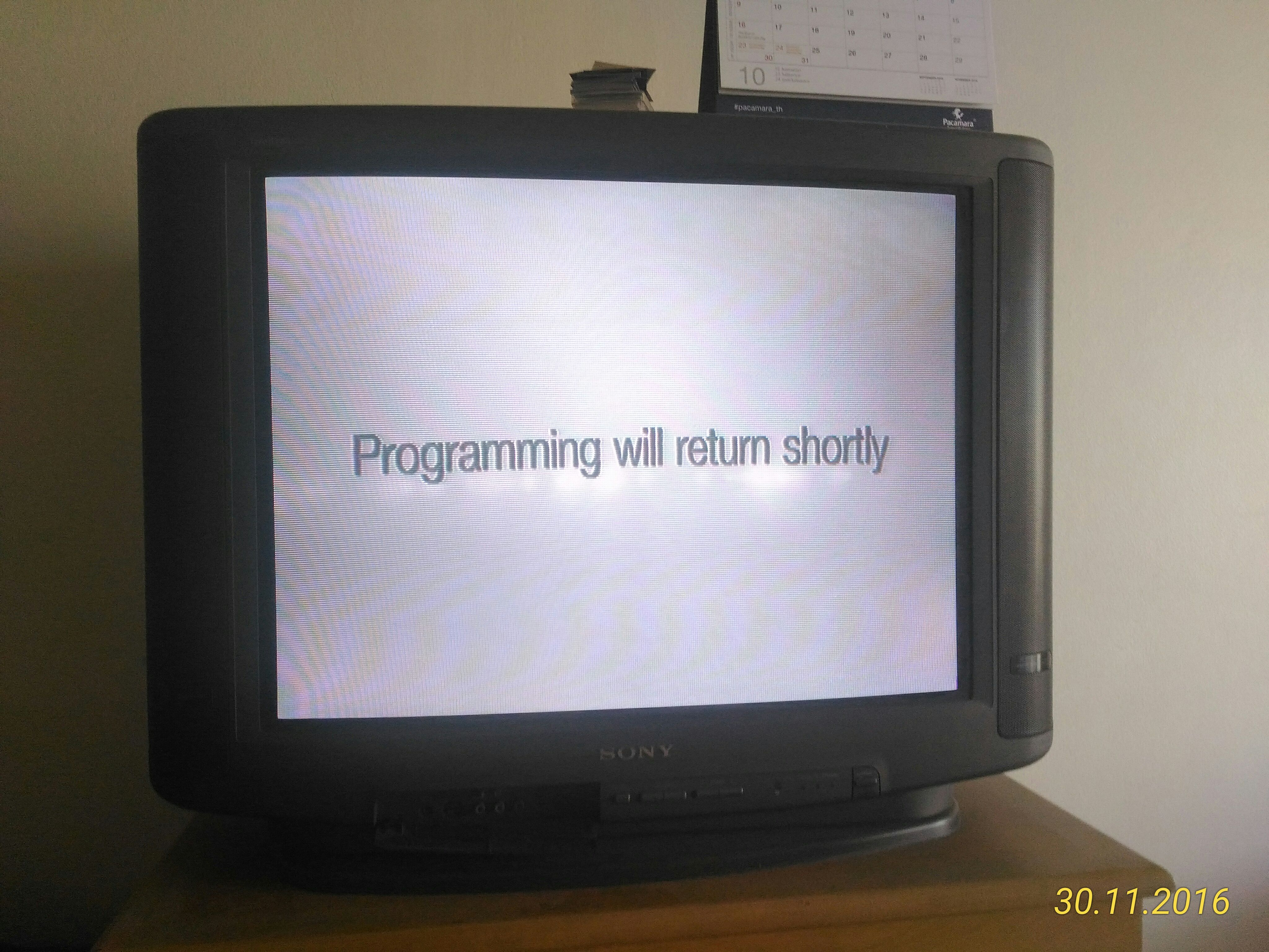 Thai Cable TV shows this when BBC reports about Tha Monarchy